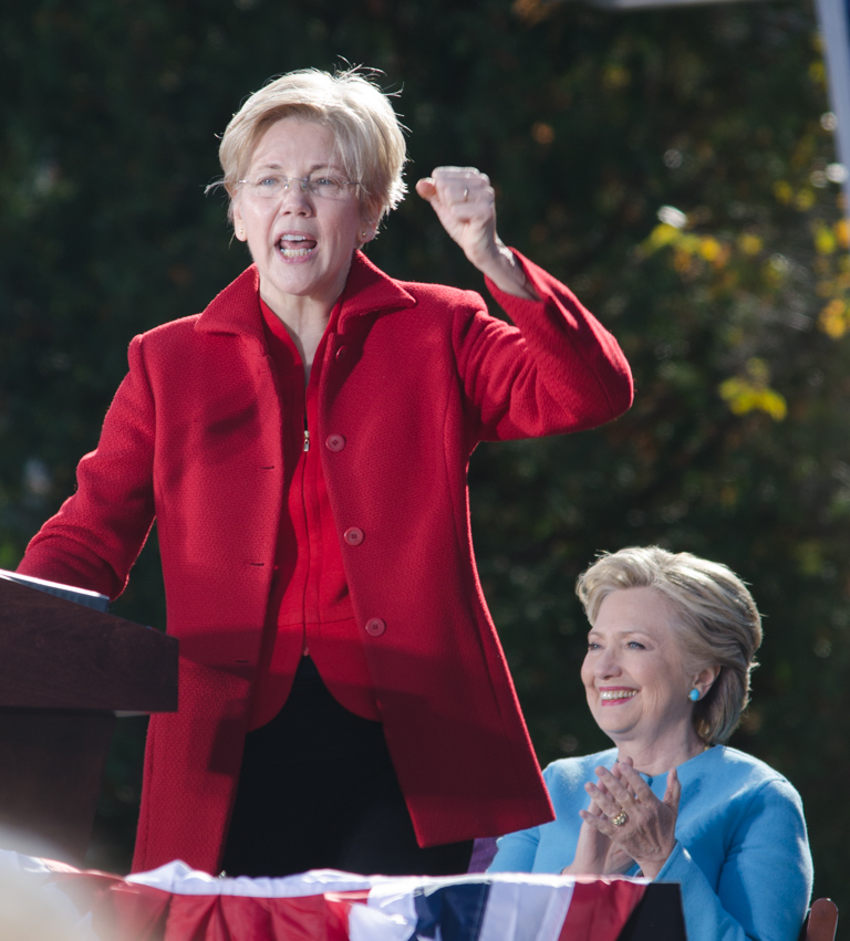 Massachusetts Senator Elizabeth Warren campaigning for Hillary Clinton (seated) in Manchester, New Hampshire in October 2016.